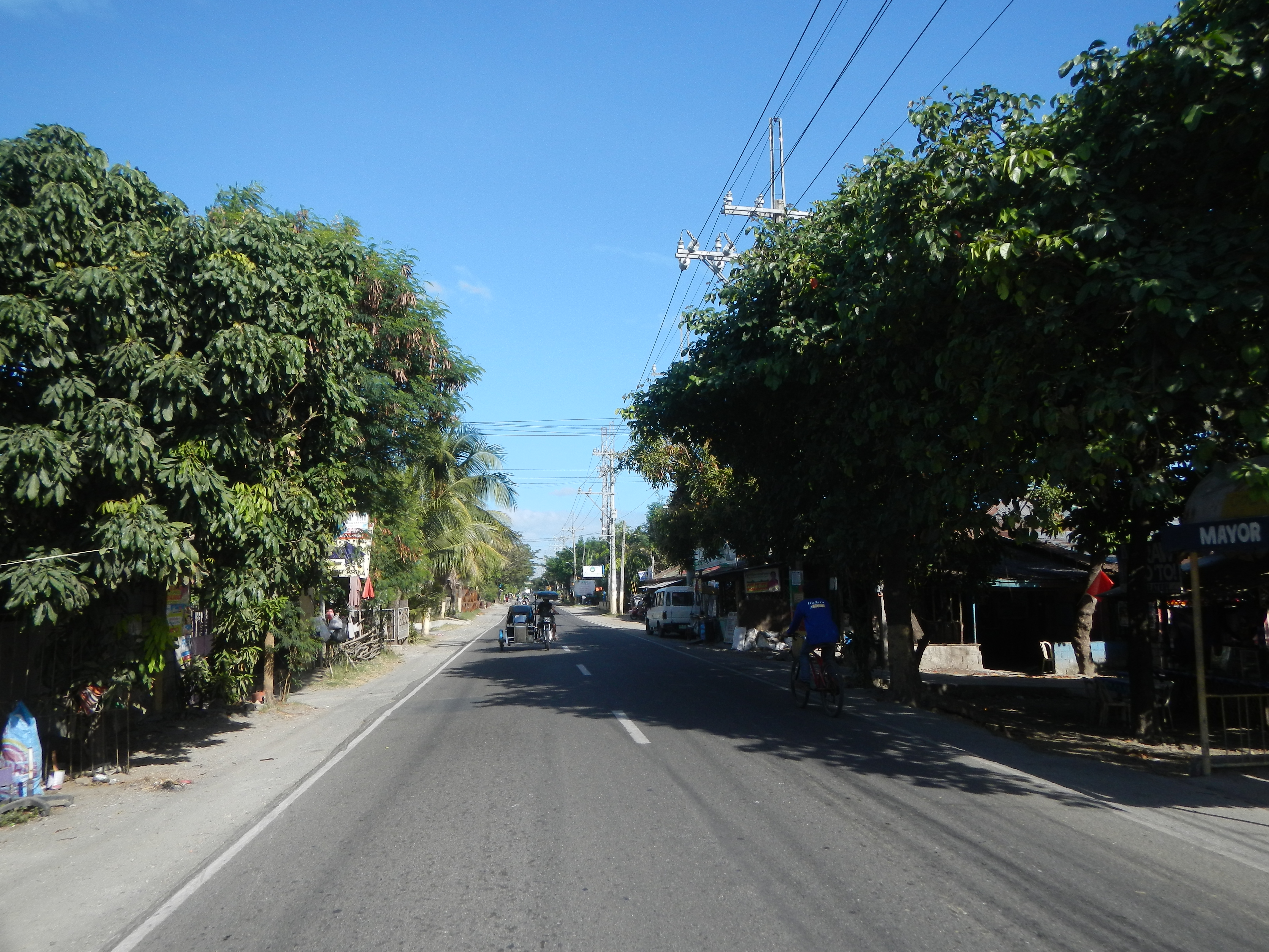 Pulilan-Calumpit, Bulacan Road Barangay Pongo and Santo Niño, Calumpit, Bulacan Santo Niño Quasi-Parish Church (Santo Niño, Calumpit, Bulacan) (accessed from and along the Pulilan-Calumpit, Bulacan Road part of the MacArthur Highway (Calumpit, Bulacan, Apalit, Minalin, Santo Tomas and City of San Fernando, Pampanga section) MacArthur Highway (Calumpit, Bulacan-Apalit, Pampanga section) of MacArthur Highway or Manila North Road).